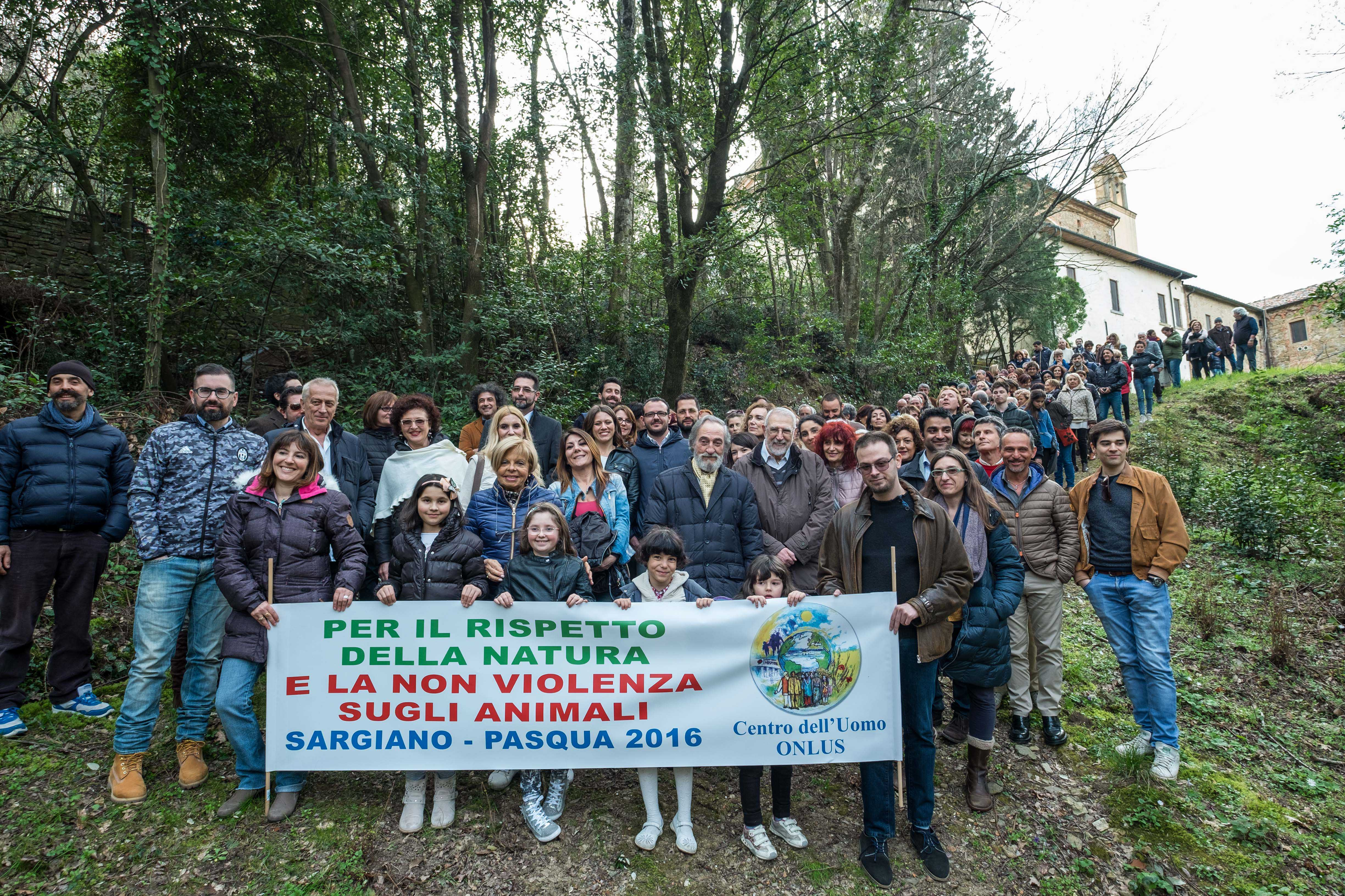 Wood of Sargiano